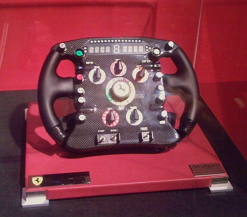 Steering wheel of a Ferrari F1 car